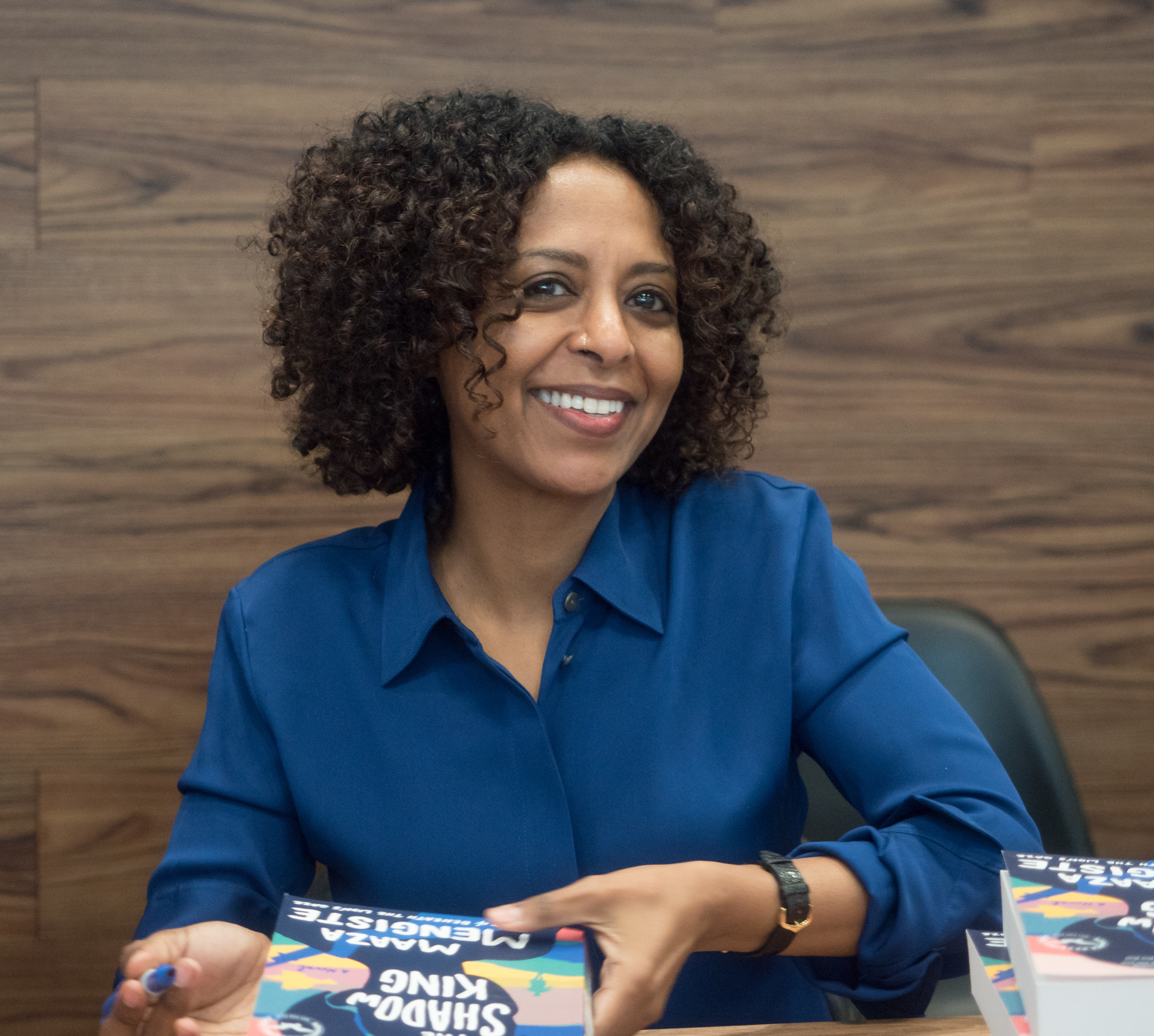 Maaza Mengiste at BookExpo at the Javits Center in New York City, May 2019.